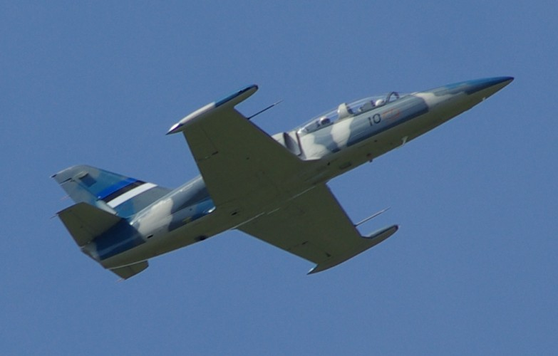 Photo taken by Madis Veskimeister, 23. june 2007 in Rapla (parade for Estonian Victory Day)